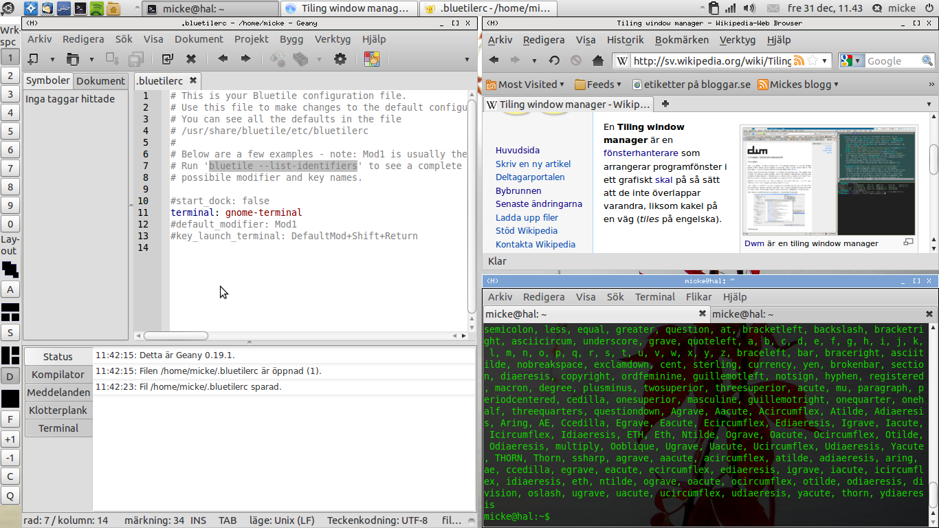 Bluetile window manager running geany, gnome-terminal and abrowser